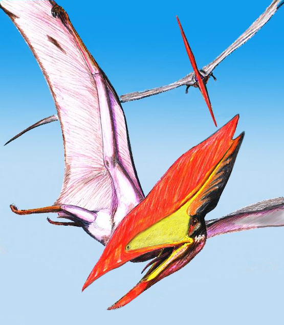 Thalassodromeus sethi restoration. Modified to match reconstructions in for example Witton, M. P. (2013). Pterosaurs: Natural History, Evolution, Anatomy. Princeton and Oxford: Princeton University Press. pp. 237-238. ISBN 978-0691150611.